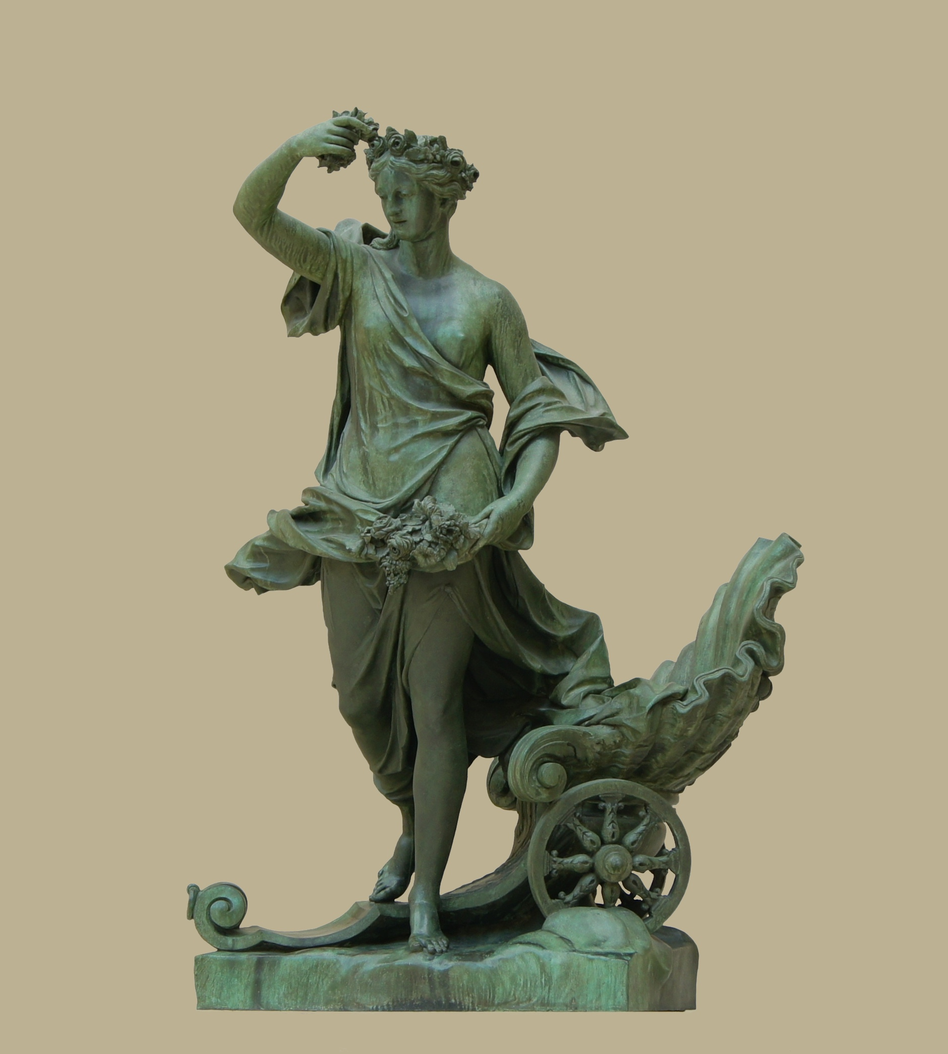 "Aurora", 1693, bronze statue by Philippe MAGNIER (1647-1715), M.R.3243, on display at Musée du Louvre, Cour Marly, Paris